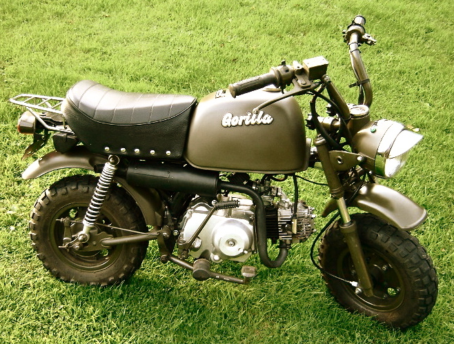 Jincheng Gorilla TE KOOP motorcycle